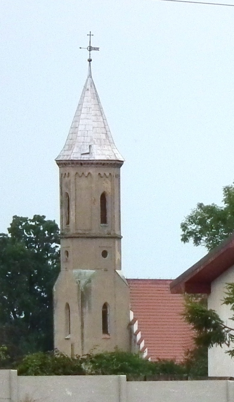 Dobrzenice Church